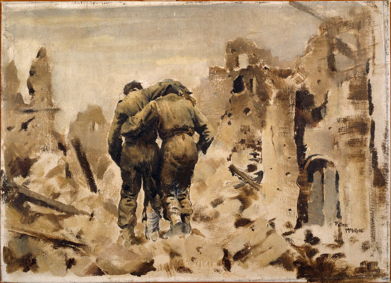 70th Anniversary of the Battle of Monte Cassino, February-May 1944 The Battle of Monte Cassino (also known as the Battle for Rome and the Battle for Cassino) was a series of four assaults over a period of four months by the Allies against the Winter Line in Italy, held by Axis forces during the Italian Campaign of World War II. The fight for Cassino was one of the most brutal and costly campaigns involving New Zealand forces in World War II. The New Zealand soldiers’ biggest involvement came, in the third battle, a major assault which started on 15 March. The town of Cassino was almost totally destroyed by a massive bombing raid, following which the 2nd New Zealand Division forces advanced under cover of an artillery barrage. It would be another two months before the German Wermarcht (unified armed forces of Germany i.e. army, navy and airforce) was dislodged from Monte Cassino. In early April the New Zealanders withdrew from Cassino, having suffered almost 350 deaths and many more wounded. In May 1944 the town finally fell to Allied forces - there had been a heavy cost all round. Rome was taken on 4 June, two days before the Allied invasion of Northern France and D-Day 6 June 1944. Monte Cassino held the historic abbey of St Benedict founded in AD 529 which stood on the hilltop above the nearby town of Cassino. The abbey was destroyed down to the foundation walls, only the crypt survived during the bombardment by Allied forces, the town was also left in ruins. Both the town and the abbey were rebuilt after the war on their original sites. Many of the treasures from the abbey had been removed by the Germans, consequently the archives, library and some paintings were saved. The image is from Archives NZ war art collection and depicts a scene from the Battle of Monte Cassino painted by Peter McIntyre an official World War II artist. War art database Peter McIntyre biography Archives Reference: AAAC 898 NCWA 309